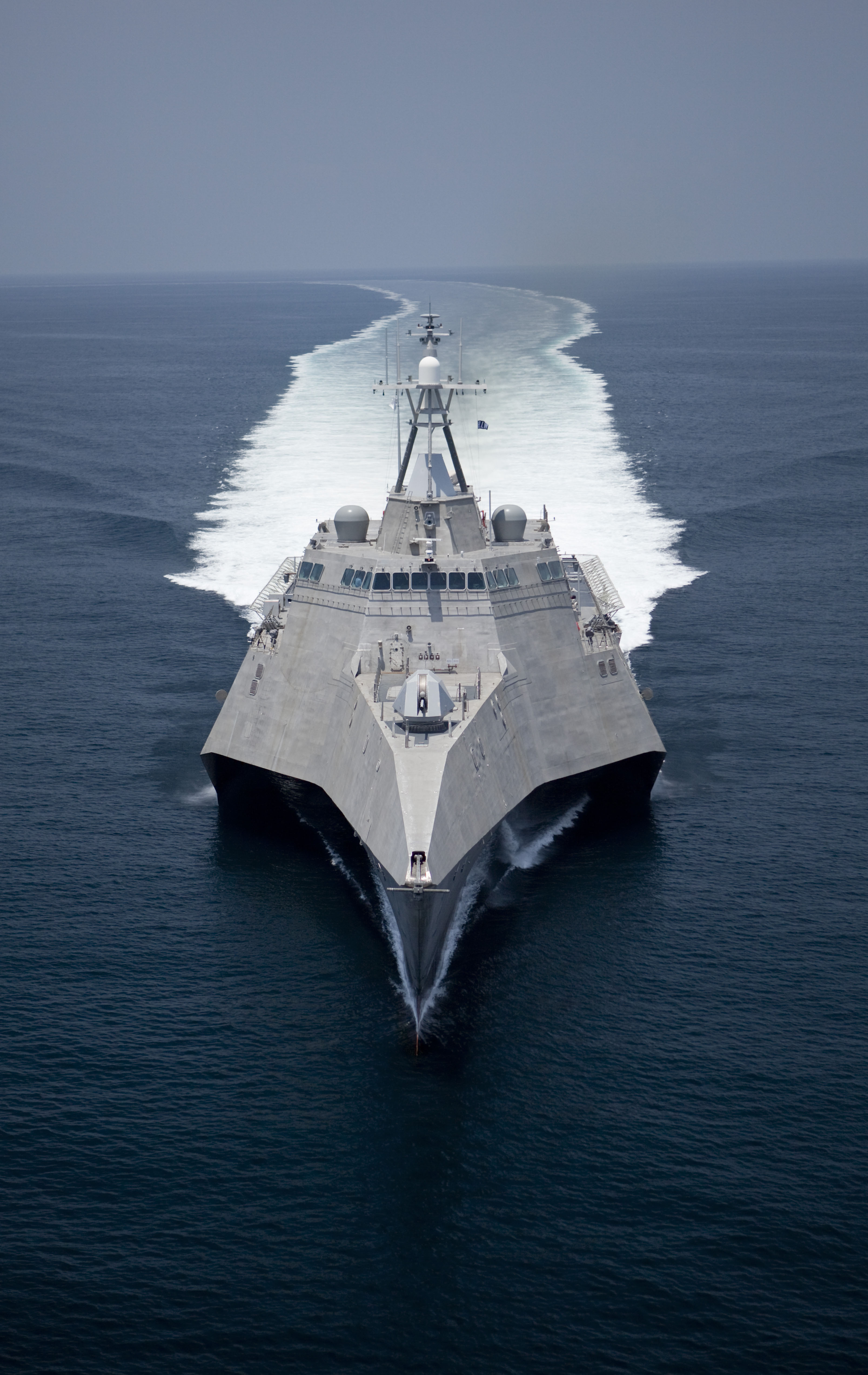 The littoral combat ship Independence (LCS 2) is underway during builder's trials in the Gulf of Mexico on July 12, 2009. Builder's trials are the first opportunity for the shipbuilder and the U.S. Navy to operate the ship and provide an opportunity to test and correct issues before acceptance trials.